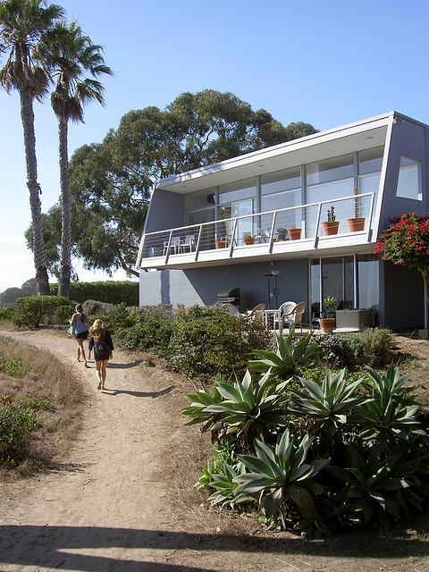 The second Hodgkins and Skubic House. September 2009, by Britta Gustafson (CC BY-SA).